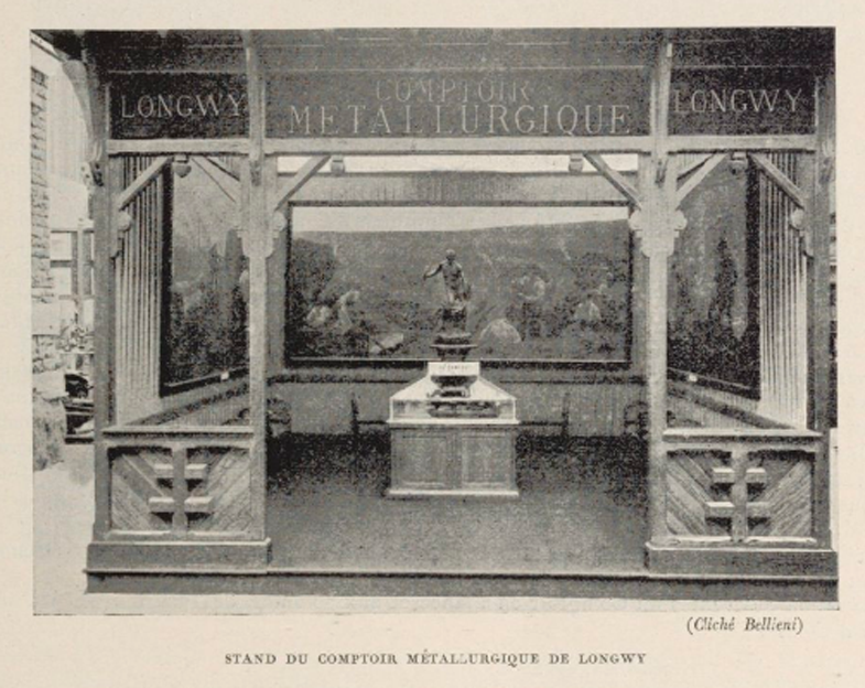 Stand of the Comptoir Metallurgique de Longwy at the Exposition Internationale de Nancy in 1909